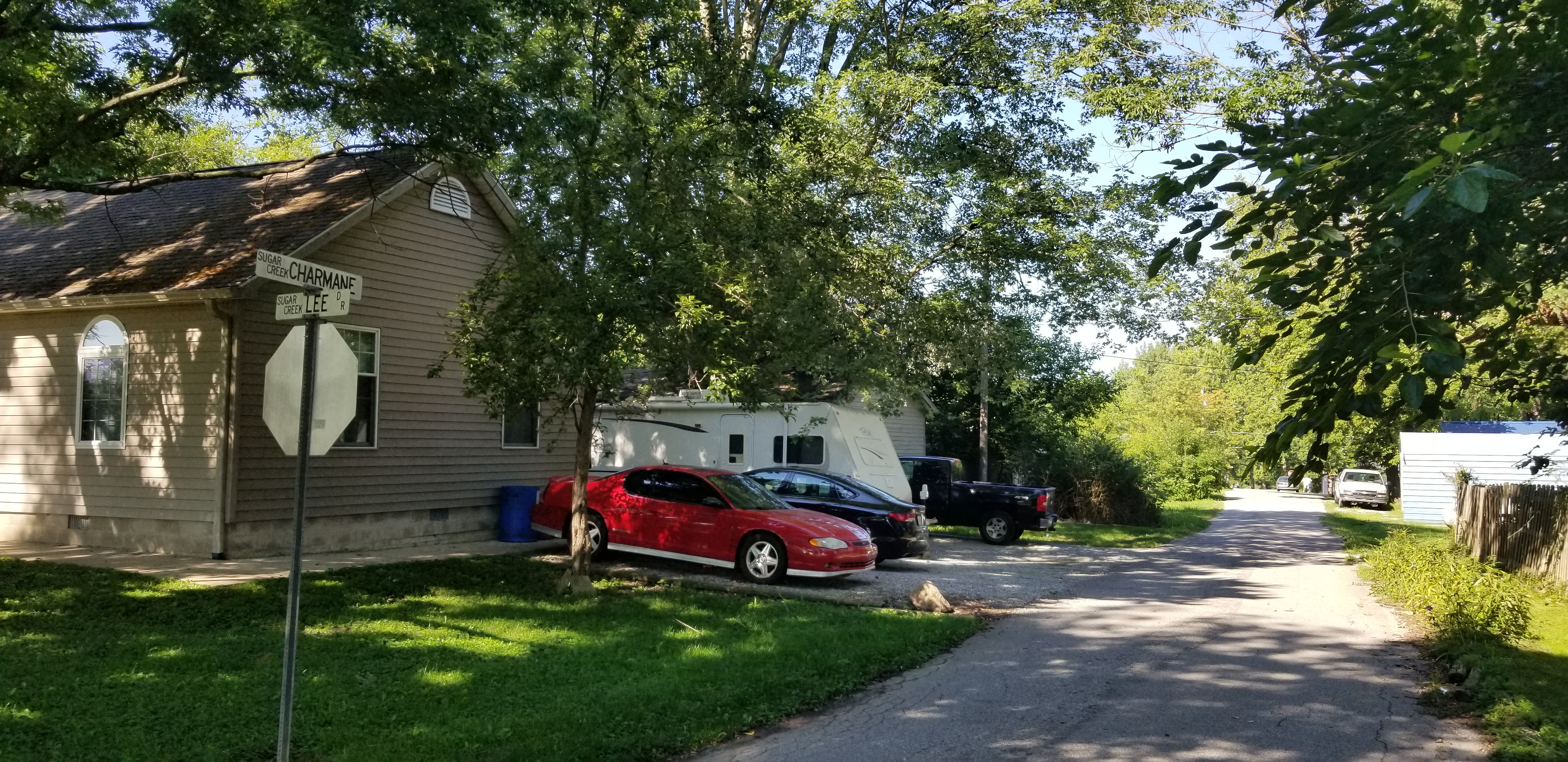 Sugar Creek, Indiana